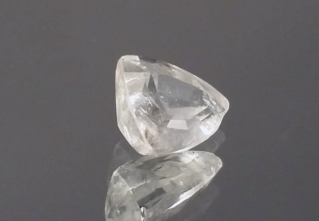 Faceted Apophyllite, 0.60 ct, from India